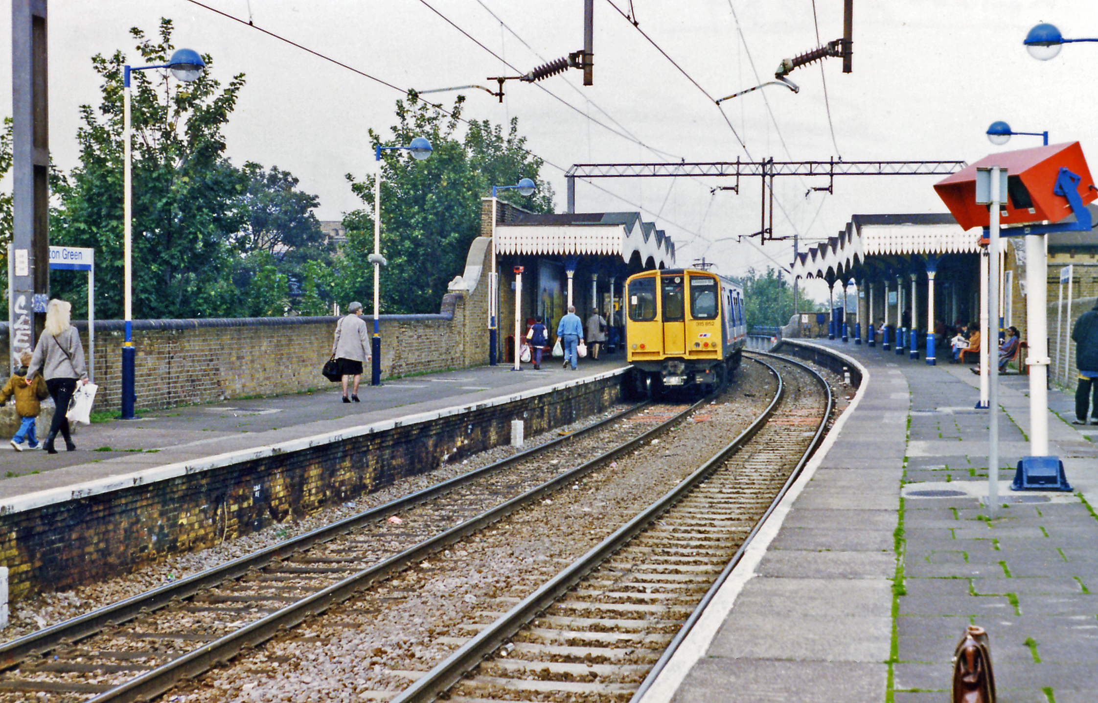 Edmonton Green station, 1995. View northward, towards Enfield Town, also Cheshunt via the Churchbury Loop: ex-GER ('West Anglia') suburban lines from Liverpool Street. The station, for over 50 years only on the Enfield line, was named 'Lower Edmonton High Level' until 28/9/92, the 'Low Level' station being on the original, little-used line from Angel Road. The Churchbury Loop, which branches off nearly a mile to the north at Bury Street Junction, was a late (October 1891) and over-ambitious 'mistake' on the part of the Great Eastern Railway: it failed to attract 'commuters' and its passenger service was withdrawn after a few years (September 1909). However, when the lines fom Liverpool Street to Bishops Stortford and Hertford East, also to Enfield Town, were electrified in November 1960 the Loop was renewed and revived in favour of the main Lea Valley line, which was not electrified until May 1969.